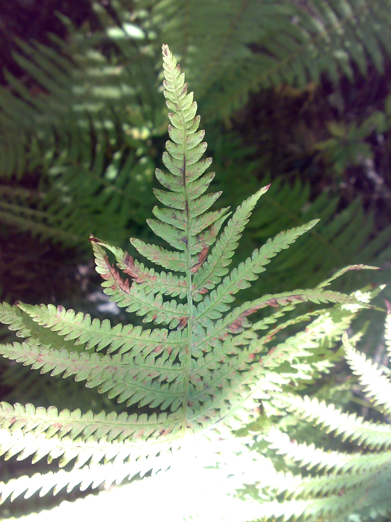 Matteuccia struthiopteris detail. Hurum, Norway